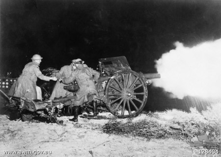 AWM caption : "Port Stephens, NSW. 1938-10-07. Firing an 18 Pounder Mk IV gun during a night exercise by the 1st Field Brigade. (Photograph reproduced in Official History Volume: The Final Campaigns page 19).